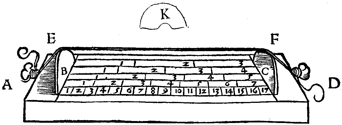 Monochord picture (1547)